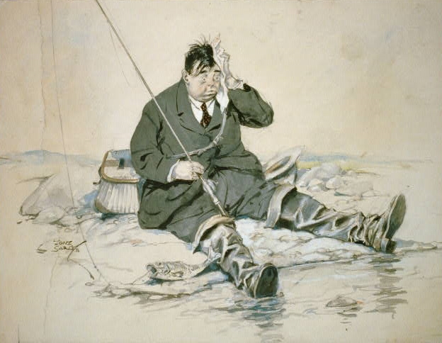 American writer and journalist Irvin S. Cobb (1876-1944) by Tony Sarg (1880-1942). 1 drawing: black ink, gouache, and watercolor over pencil on illustration board, 30 x 39 cm. (sheet).